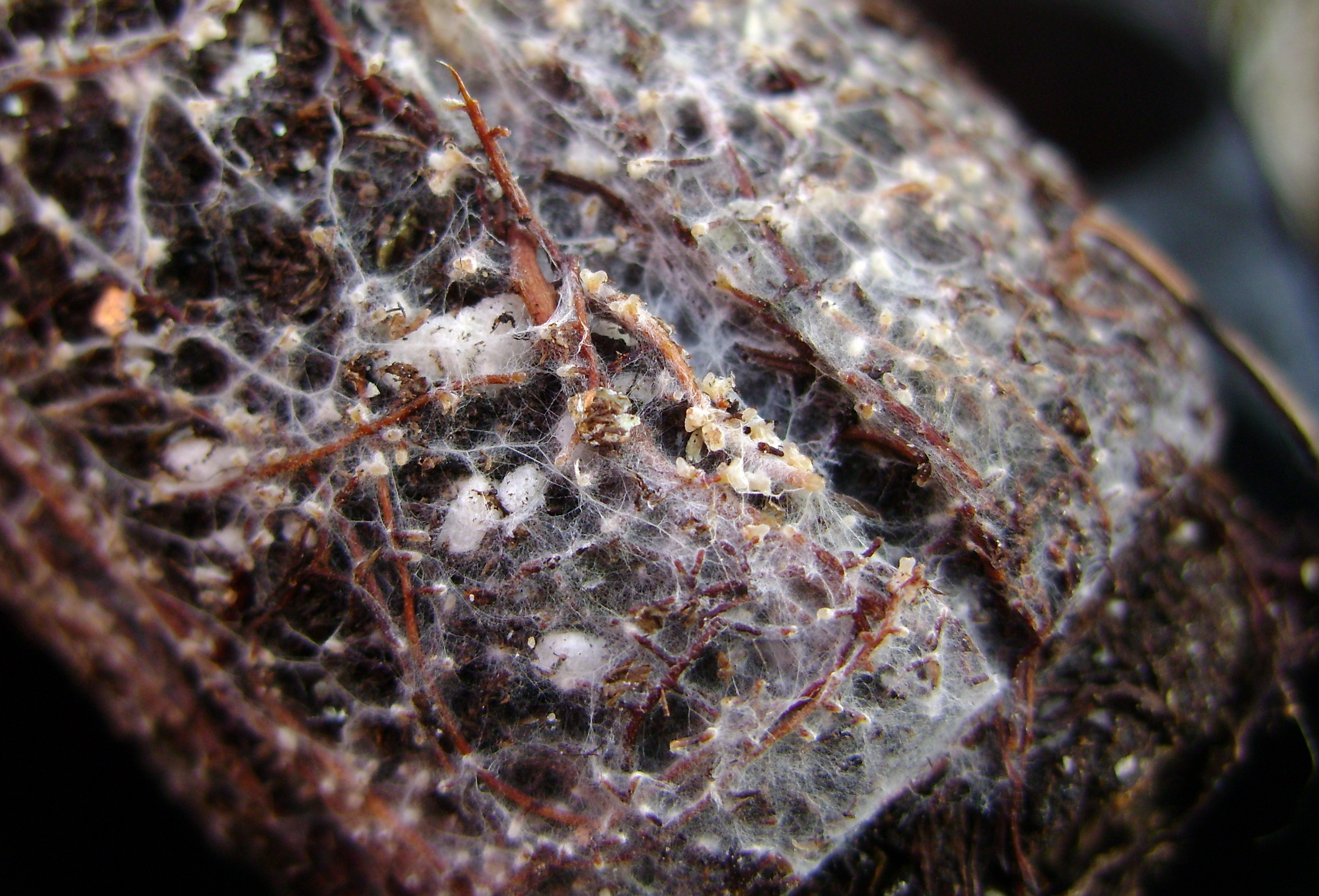 Ectomycorrhizal mycelium (white) associated to Picea glauca roots (brown).